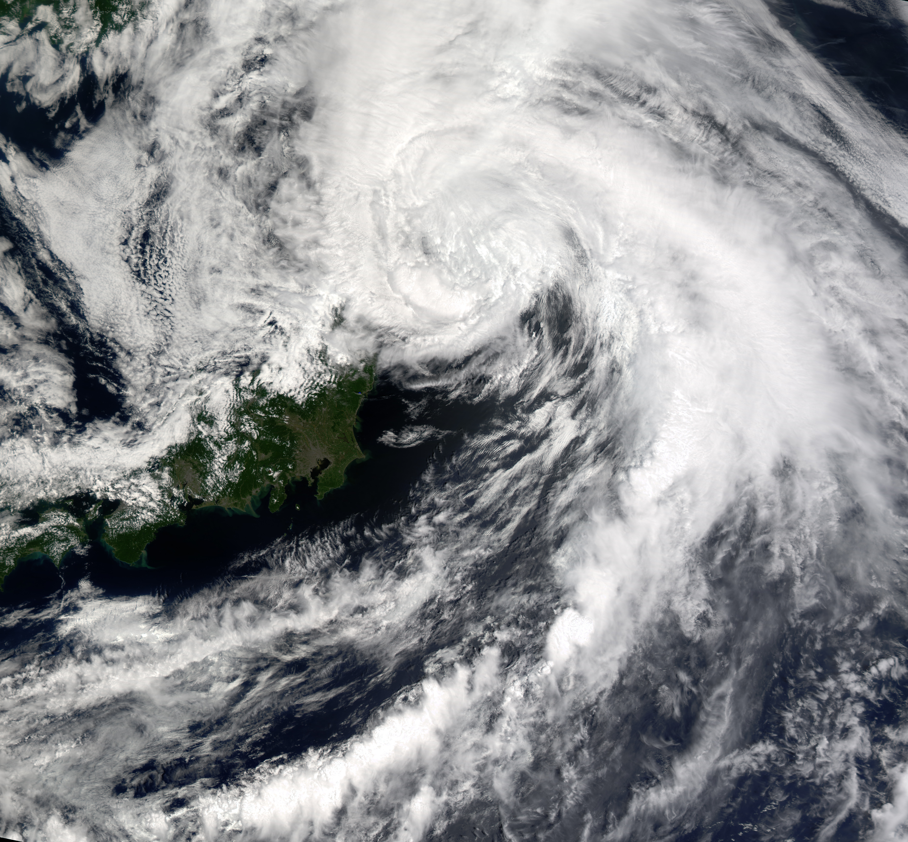 Slowly winding its way down, Typhoon Chataan had dropped to tropical storm status by Thursday, July 11, 2002, when this image from the Moderate Resolution Imaging Spectroradiometer (MODIS) was captured. In the image, the storm is located off the east coast of central Japan in the Pacific Ocean. The storm is much less organized than it was in the previous day's image. Through a gap in the clouds to the southwest of the storm's eye, Tokyo can be seen as a grayish cluster of pixels surrounding a small bay or inlet that protrudes into the island of Honshu.